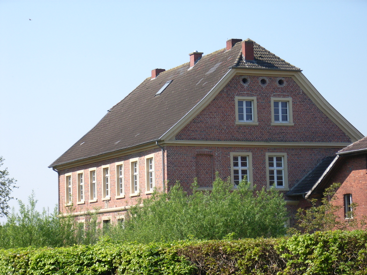 Haus Hoetmar (Hoetmar Manor) in Warendorf-Hoetmar.